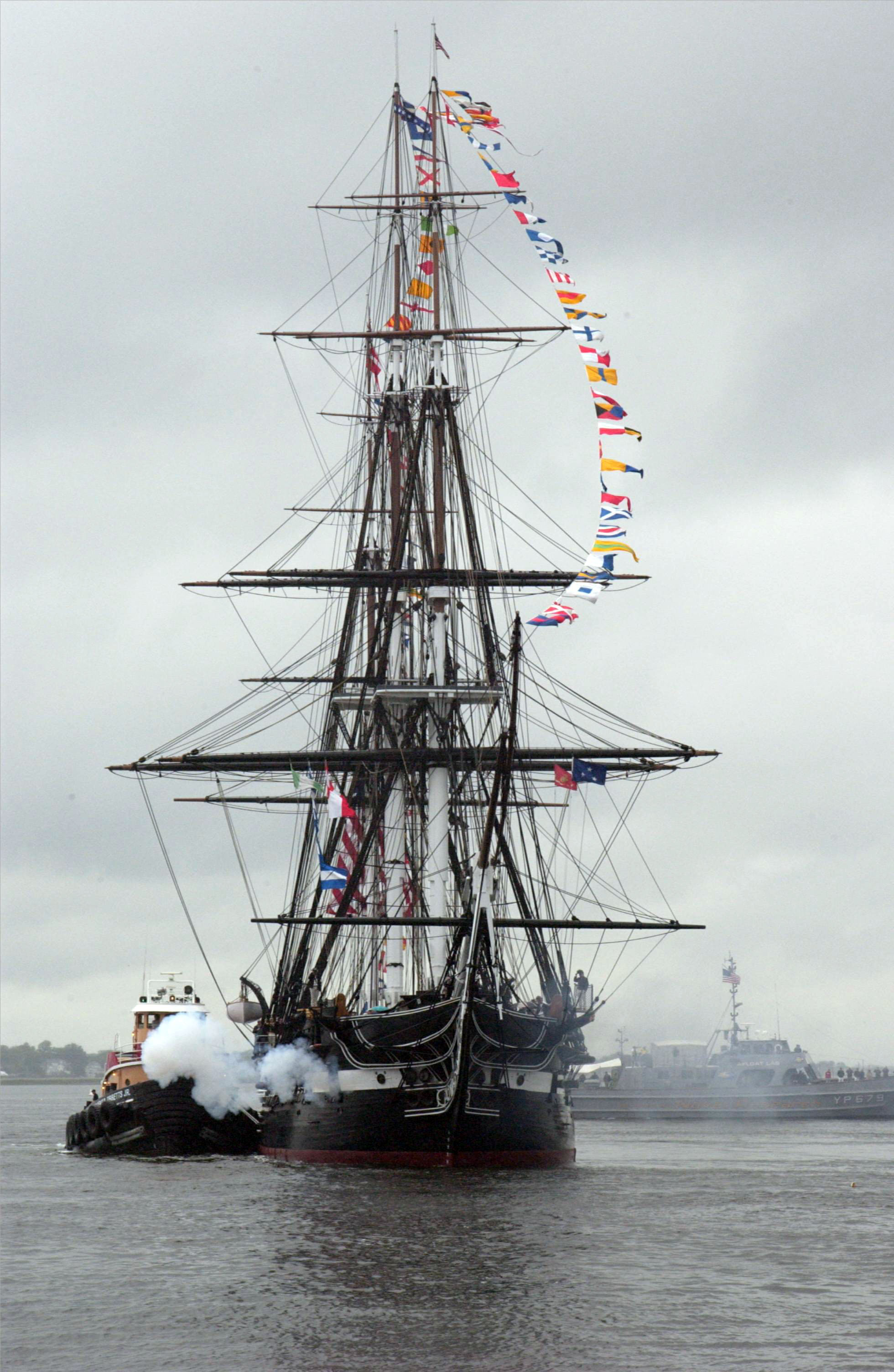 060610-N-9582D-013 Boston (June 10, 2006) - USS Constitution, “Old Ironsides” fires a 21-gun salute to Castle Island's Fort Independence during a turnaround cruise in Boston Harbor. The turn-around cruise is one of the high points of Boston Navy Week. Twenty-four such weeks are planned this year in cities throughout the U.S., arranged by the Navy Office of Community Outreach (NAVCO). NAVCO is tasked with enhancing the Navy's brand image in areas with limited exposure to the Navy.